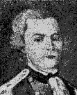 Gerhard Johann Balthasar Von Heidenstam (1747-1803) swedish diplomat